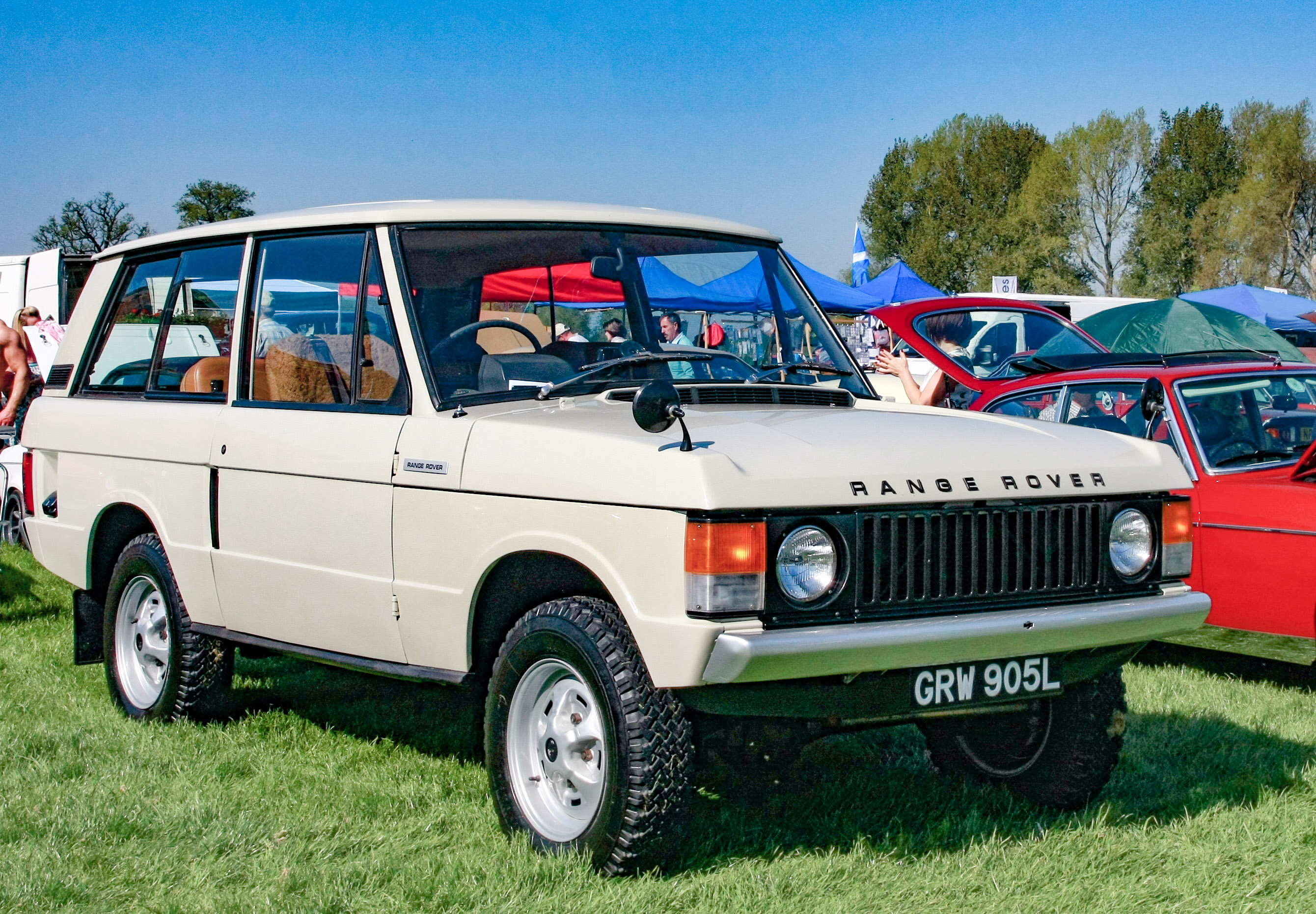 Range Rover (1973 - so quite an early one)